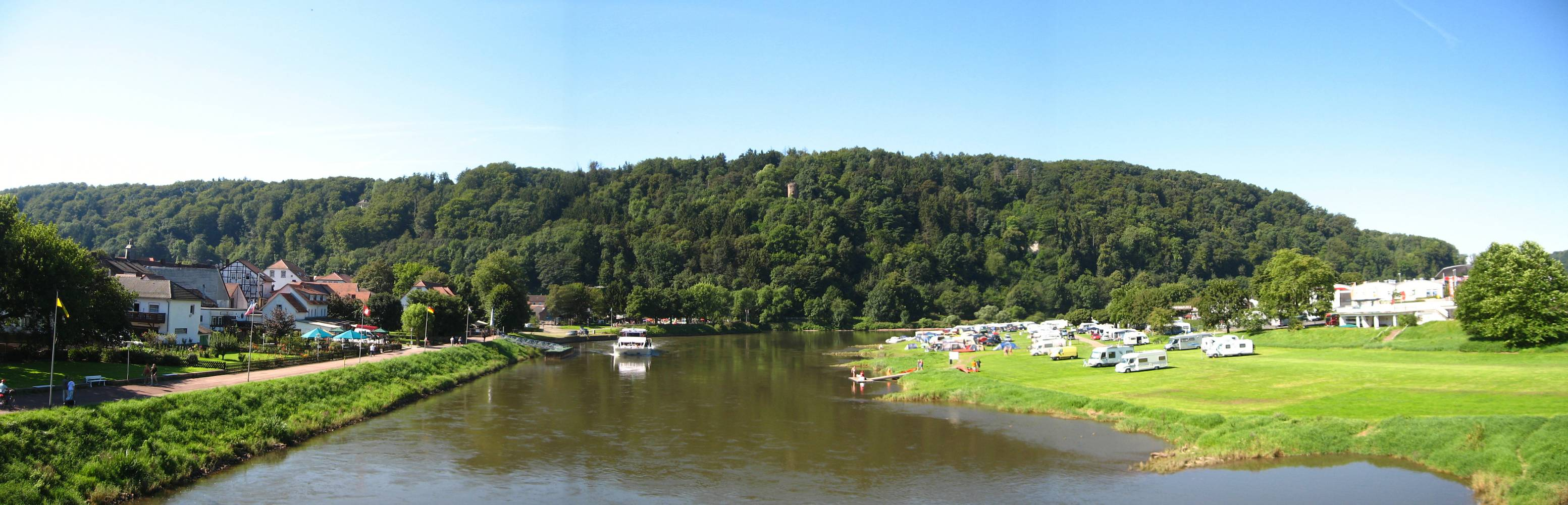 Germany / Hesse: River Weser in Bad Karlshafen